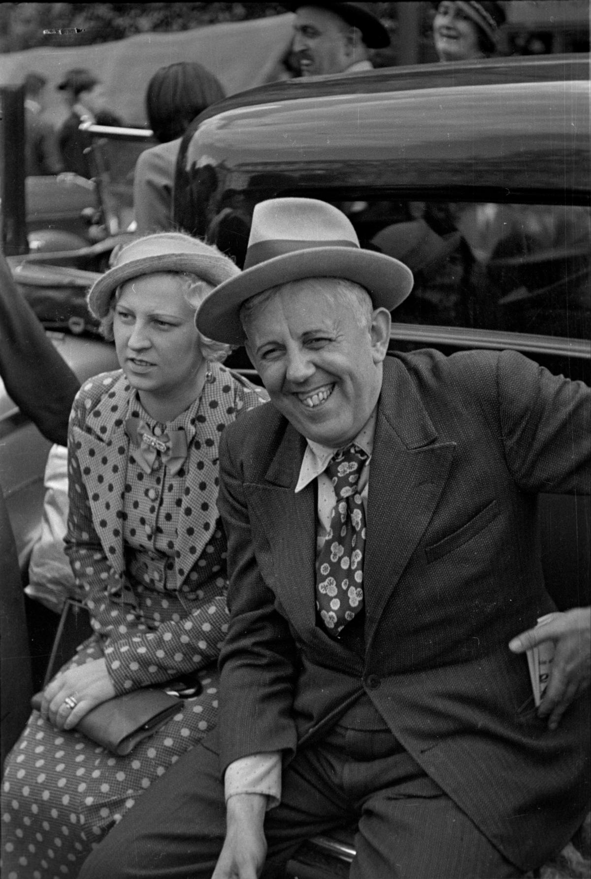 Ferenc Futurista (František Fiala), czech actor, on celebration of soccer wictory over Rome, approx 1934 author: Josef Jindřich Šechtl Uploaded with approval of inheritors of the copyright